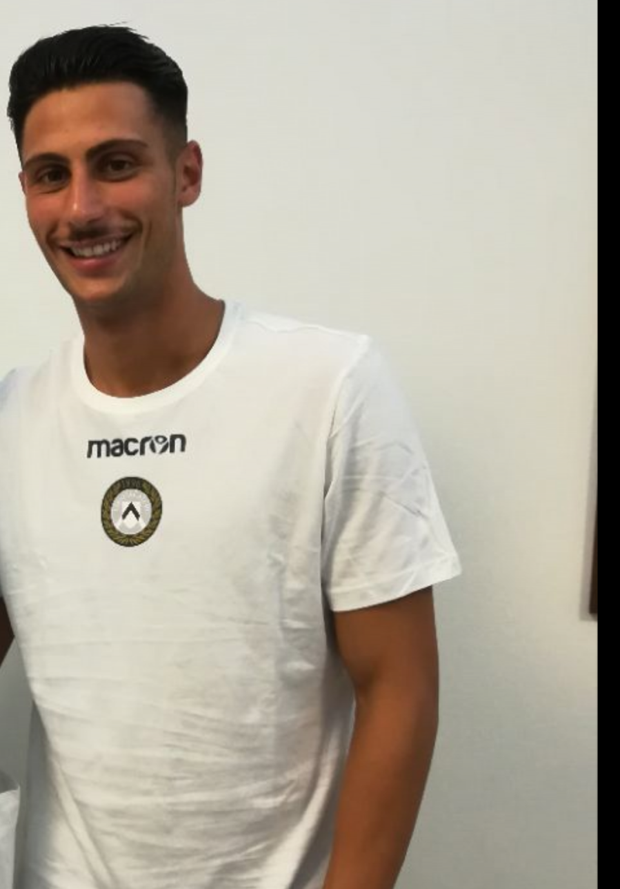 Italian footballer Rolando Mandragora with Udinese Calcio in the 2018–19 season.